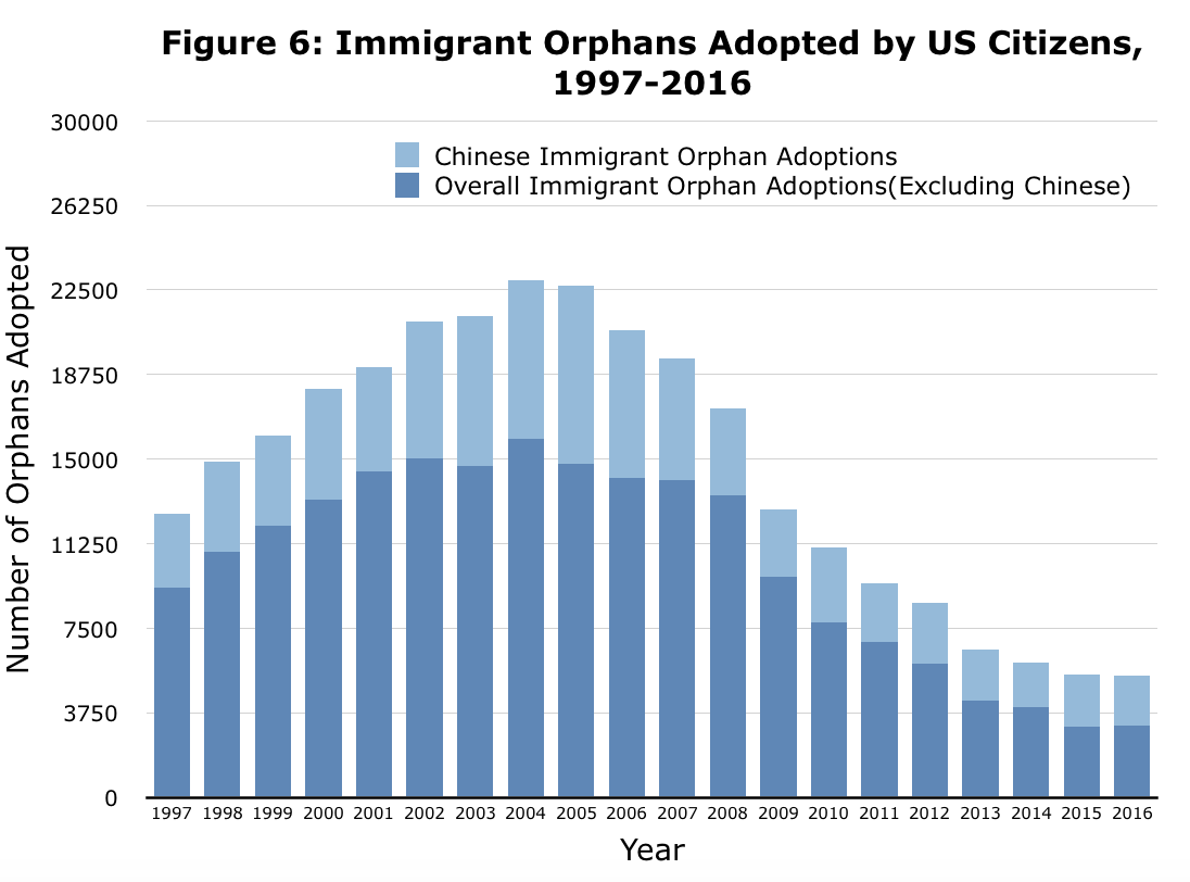 graph showing the number of Chinese immigrant orphans adopted by US citizens compared with the number of overall immigrant orphans adopted by US citizens. The graph communicates that Chinese adoptions make up a disproportionately large percentage of overall adoptions of immigrants.